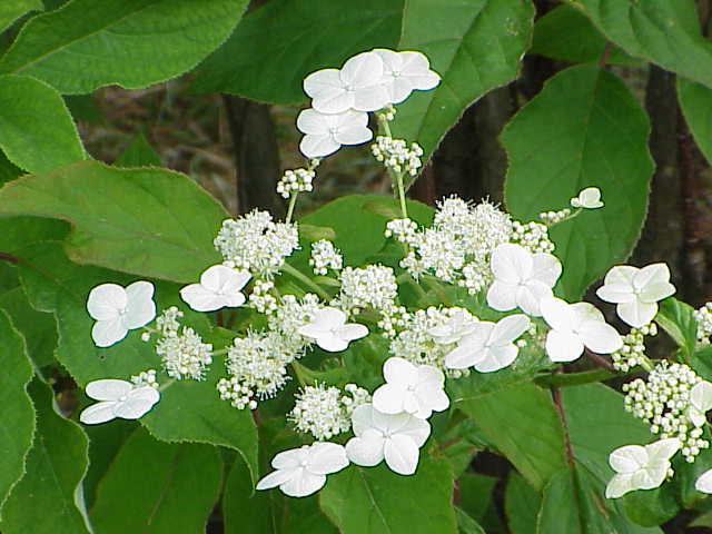 Name Hydrangea arborescens Family Hydrangeaceae Image no. 1 Permission granted to use under GFDL by Kurt Stueber